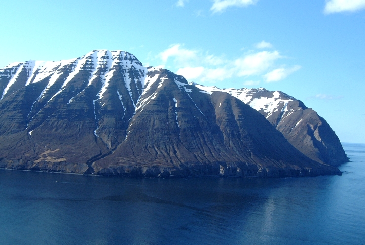 The mountain Arnfinnur, Ólafsfjörður, North Iceland